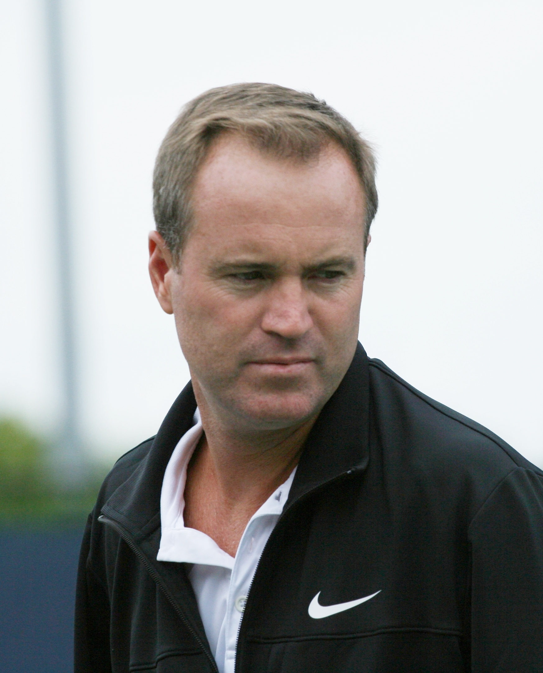 U.S. Open Champions Team Tennis; Thursday, Sept. 10, 2009